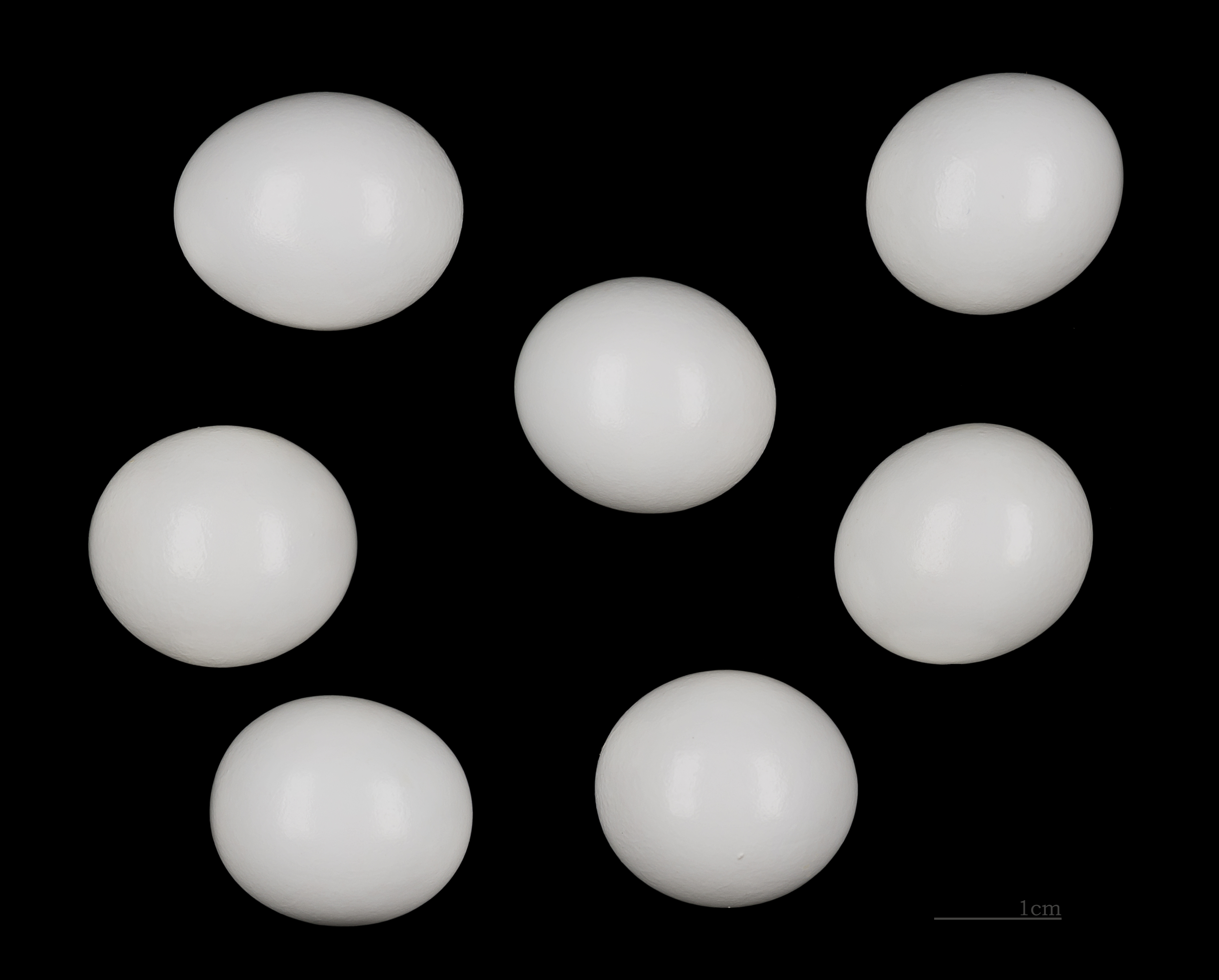 Egg of Common Kingfisher. Collection of Jacques Perrin de Brichambaut.